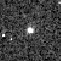 Hubble Space Telescope image of Jupiter trojan 5511 Cloanthus taken on 5 November 2012